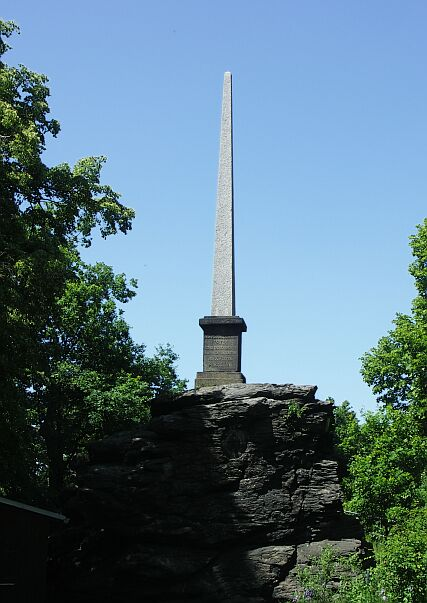 Top of Keulenberg Mountain, Saxony, Germany See also: File:Station Nr. 10 "Keulenberg".jpg.